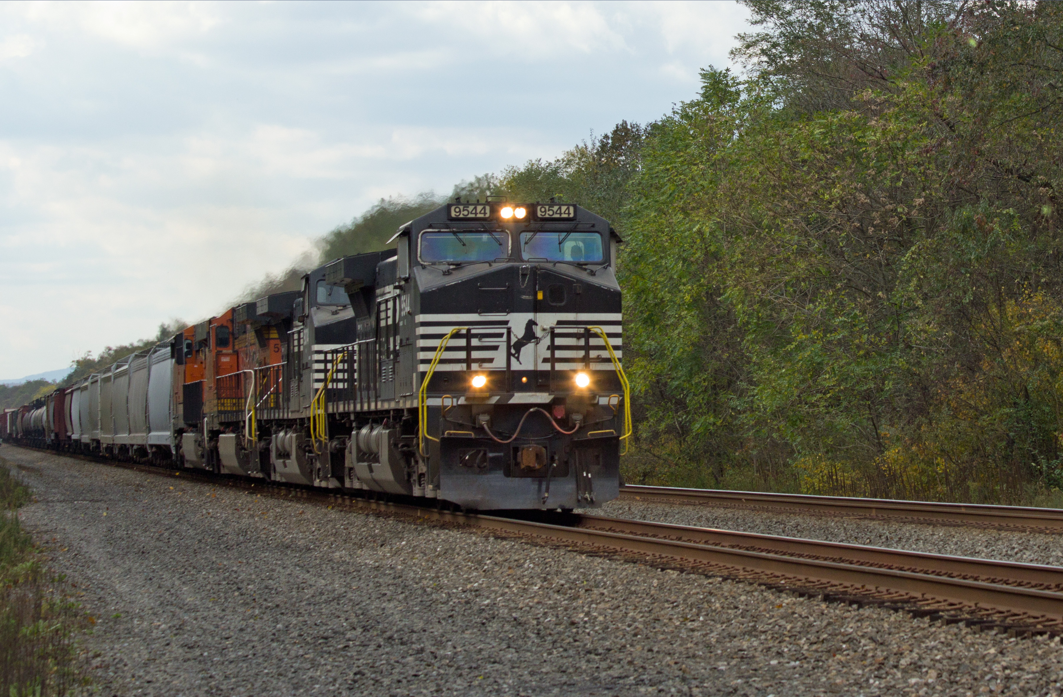 Four engines (two NS and two BNSF) haul a long manifest train at track speed on NS’s Pittsburgh Line. This is the former PRR Middle Division. This long section of tangent track is between Port Royal and Millerstown, PA.